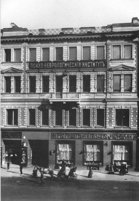 Saint Petersburg (Russia), Nevsky Prospekt.Nevsky, 104.